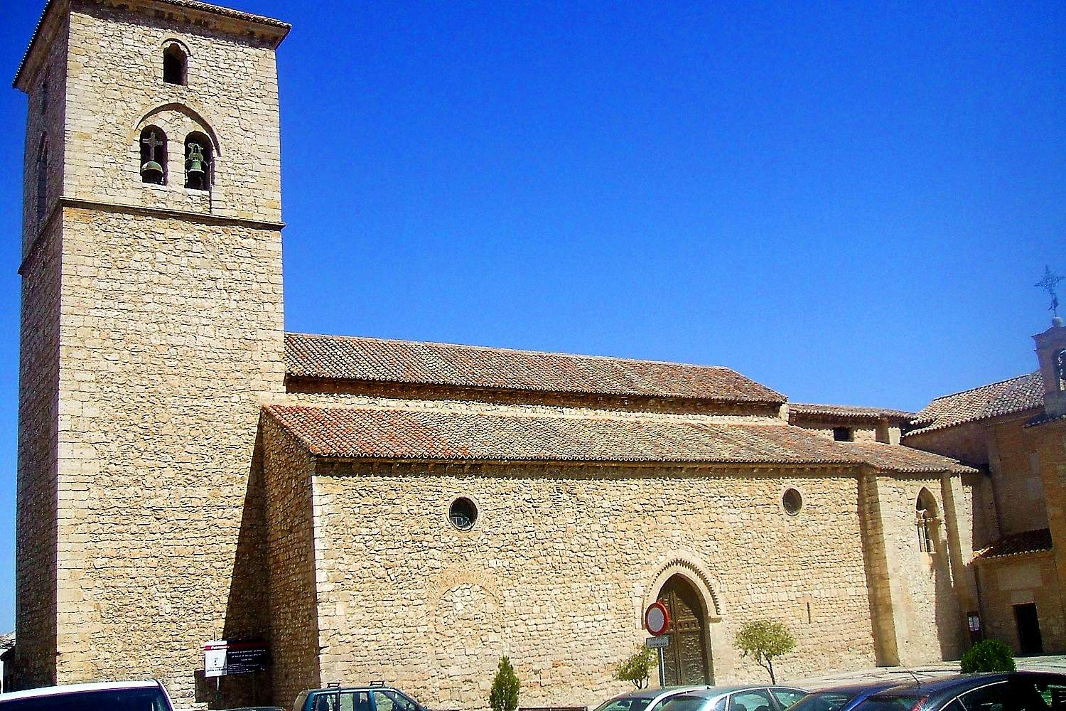 Iglesia de Santiago, Ciudad Real